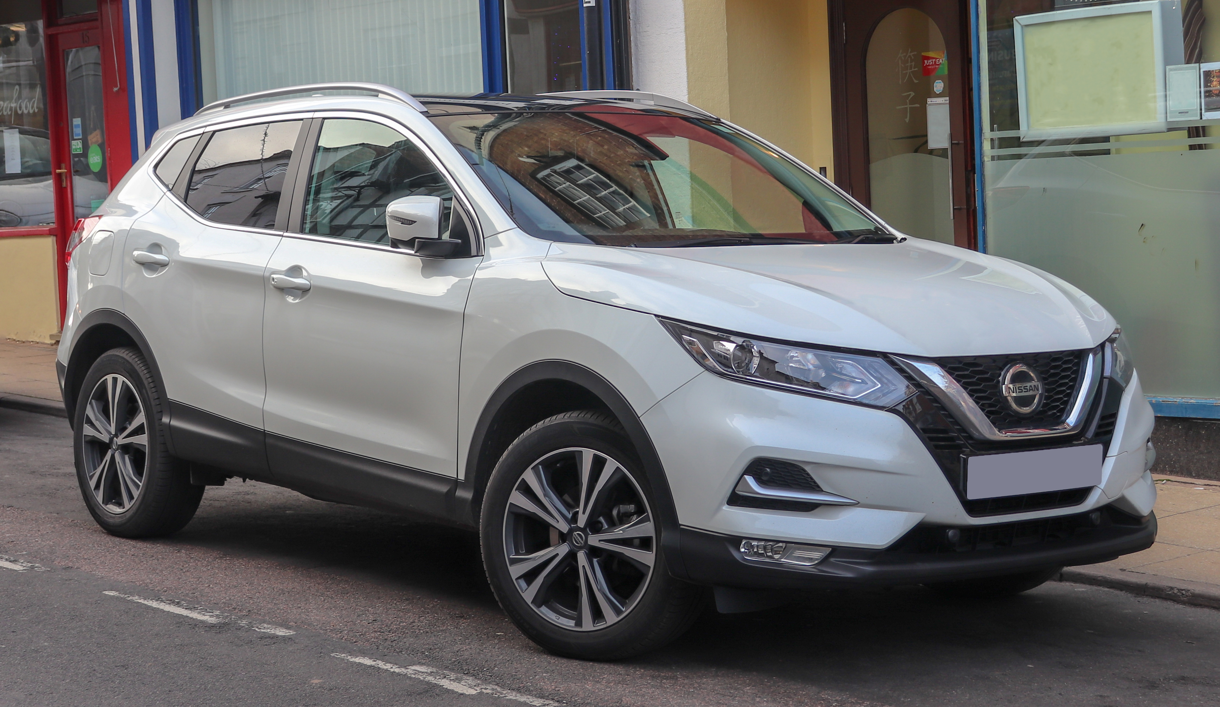 2018 Nissan Qashqai N-Connecta DCi 1.5 Front Taken in Warwick